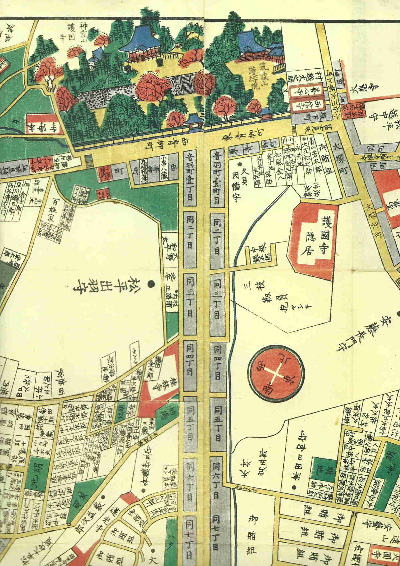 Detail of map showing Gokokuji temple